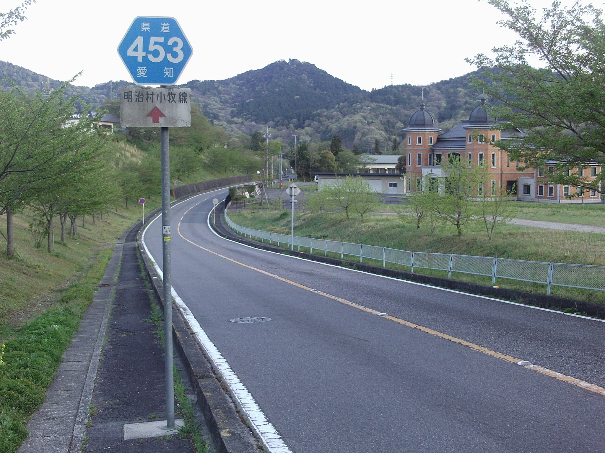 Aichi prefectural road No.453 in Ikeno, Inuyama, Aichi.